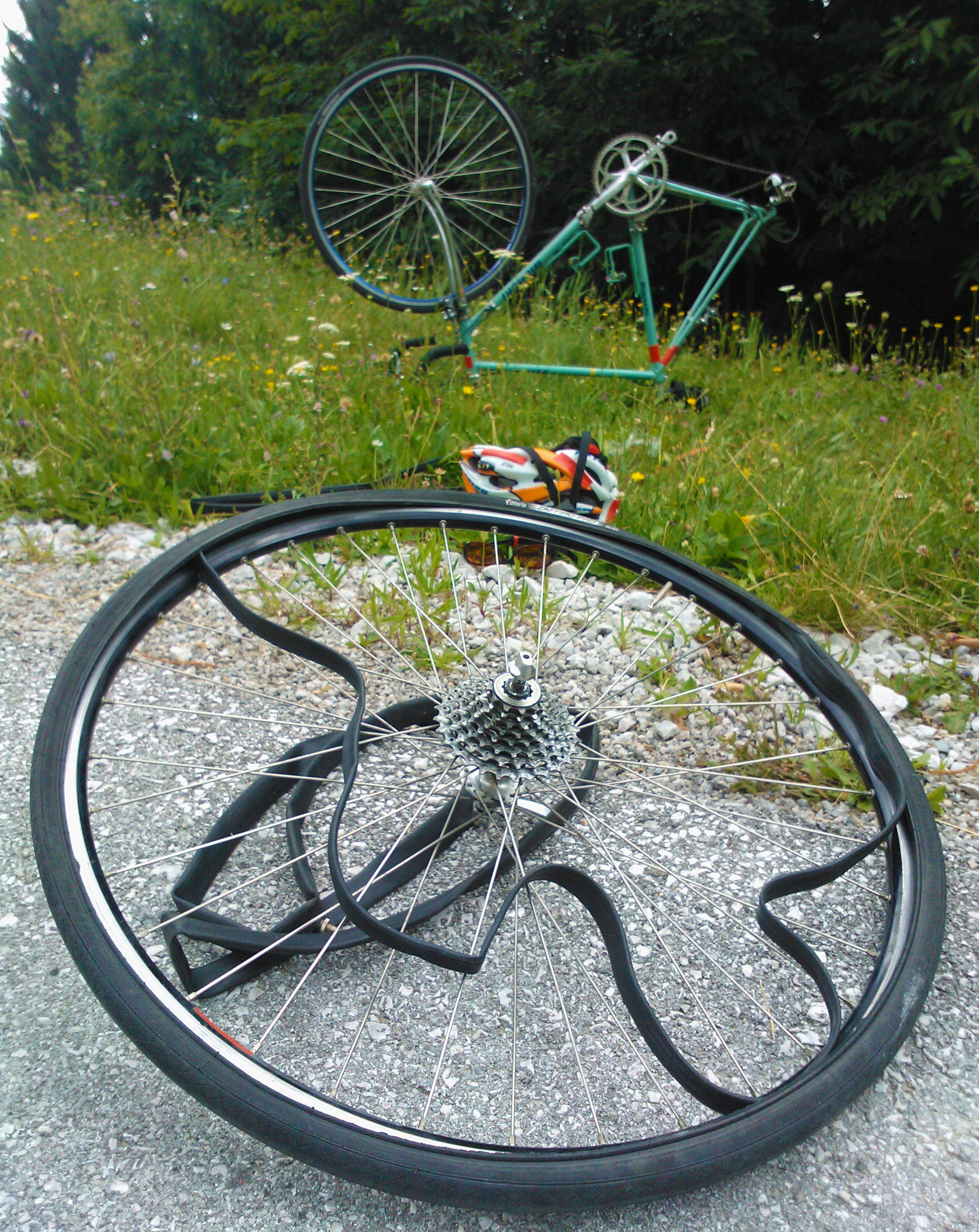 Flat tire on road bicycle, half-tubular 23-622